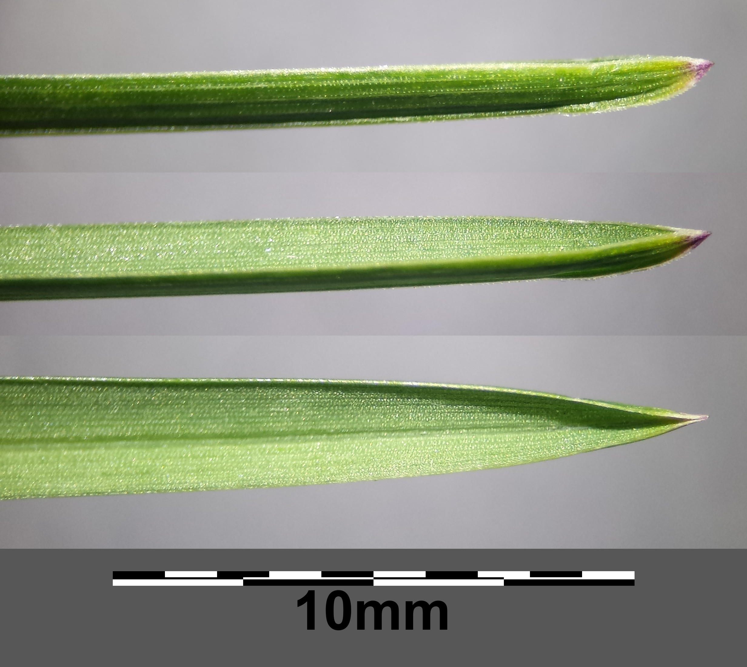 Canaliculate leaf Taxonym: Poa pratensis ss Fischer et al. EfÖLS 2008 ISBN 978-3-85474-187-9 Location: next to Schmetterlingswiese in Donaupark, Vienna-Donaustadt - ca. 160 m a.s.l. Habitat: ruderal, dry meadows